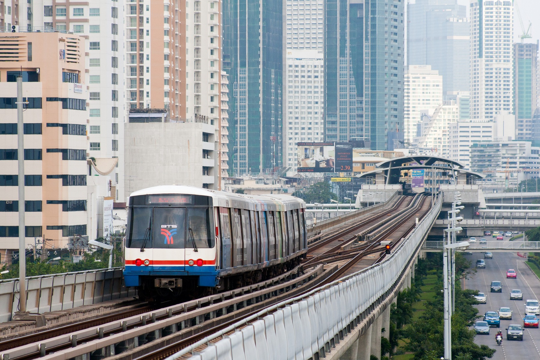 Bangkok Skytrain